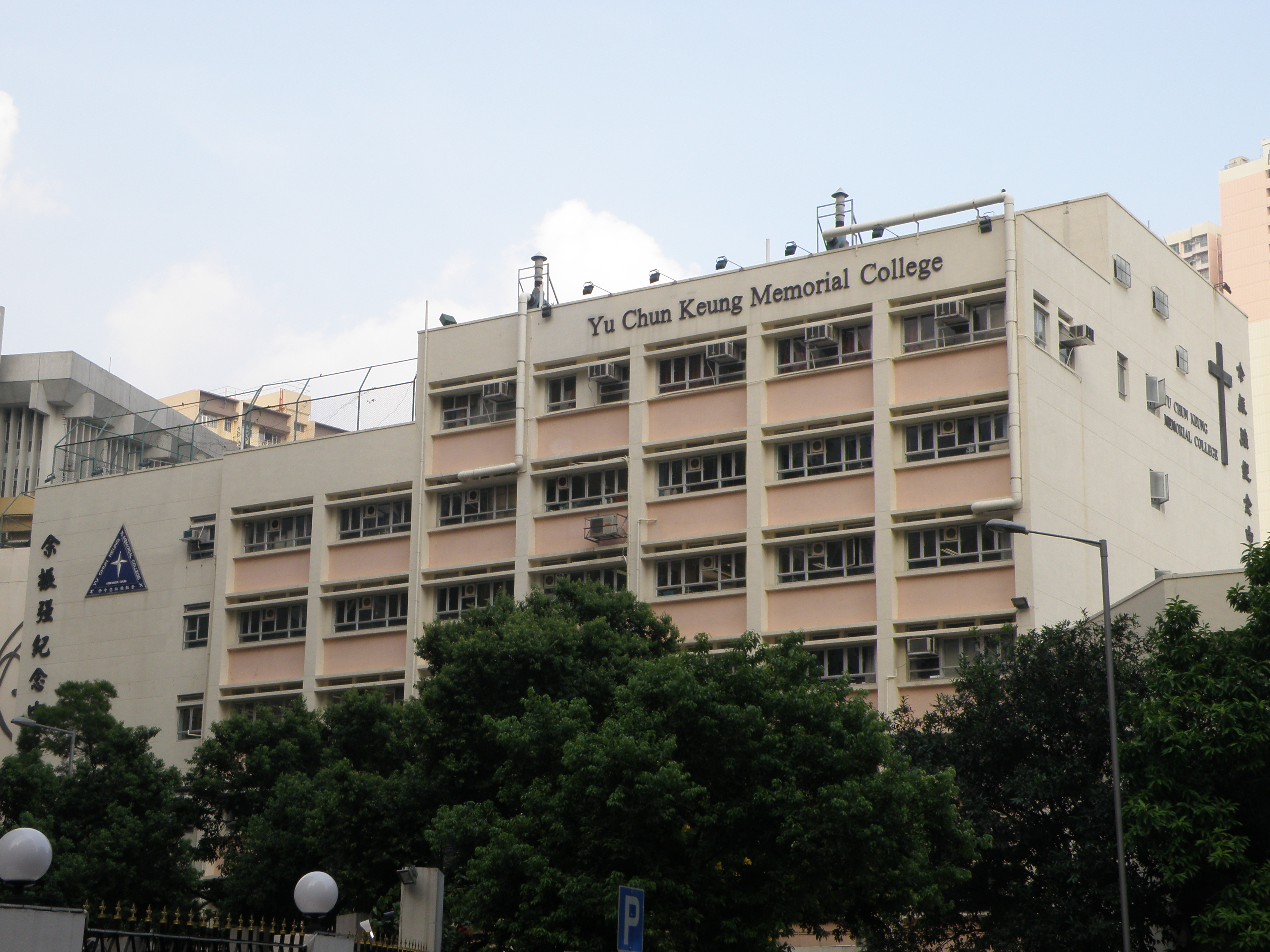 Yu Chun Keung Memorial College in Ho Man Tin, Hong Kong.